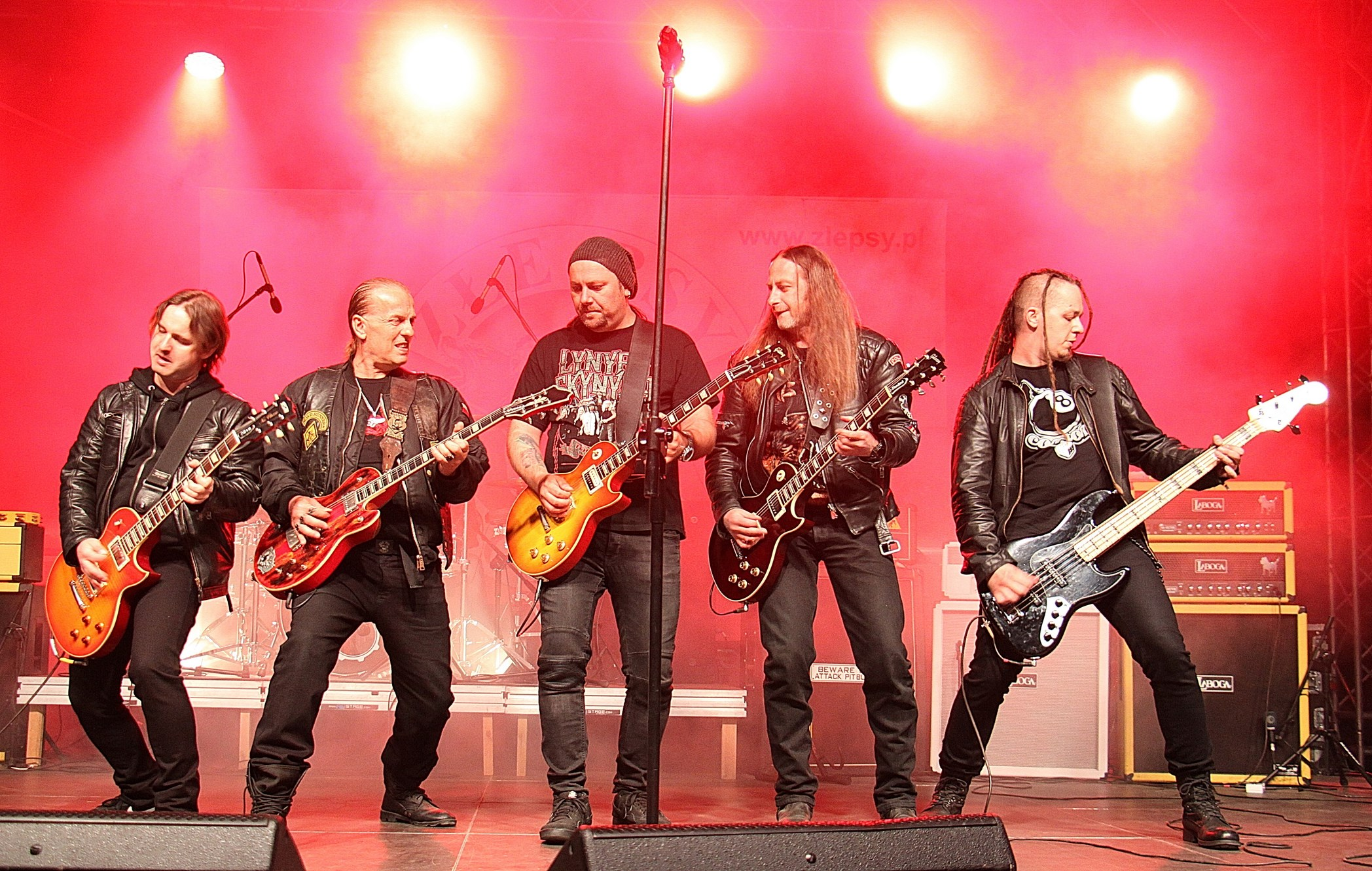 Złe Psy on stage (Jacek Kasprzyk & Andrzej Nowak & Sebastian Riedel & Grzegorz Babisz & Paweł Nafus)